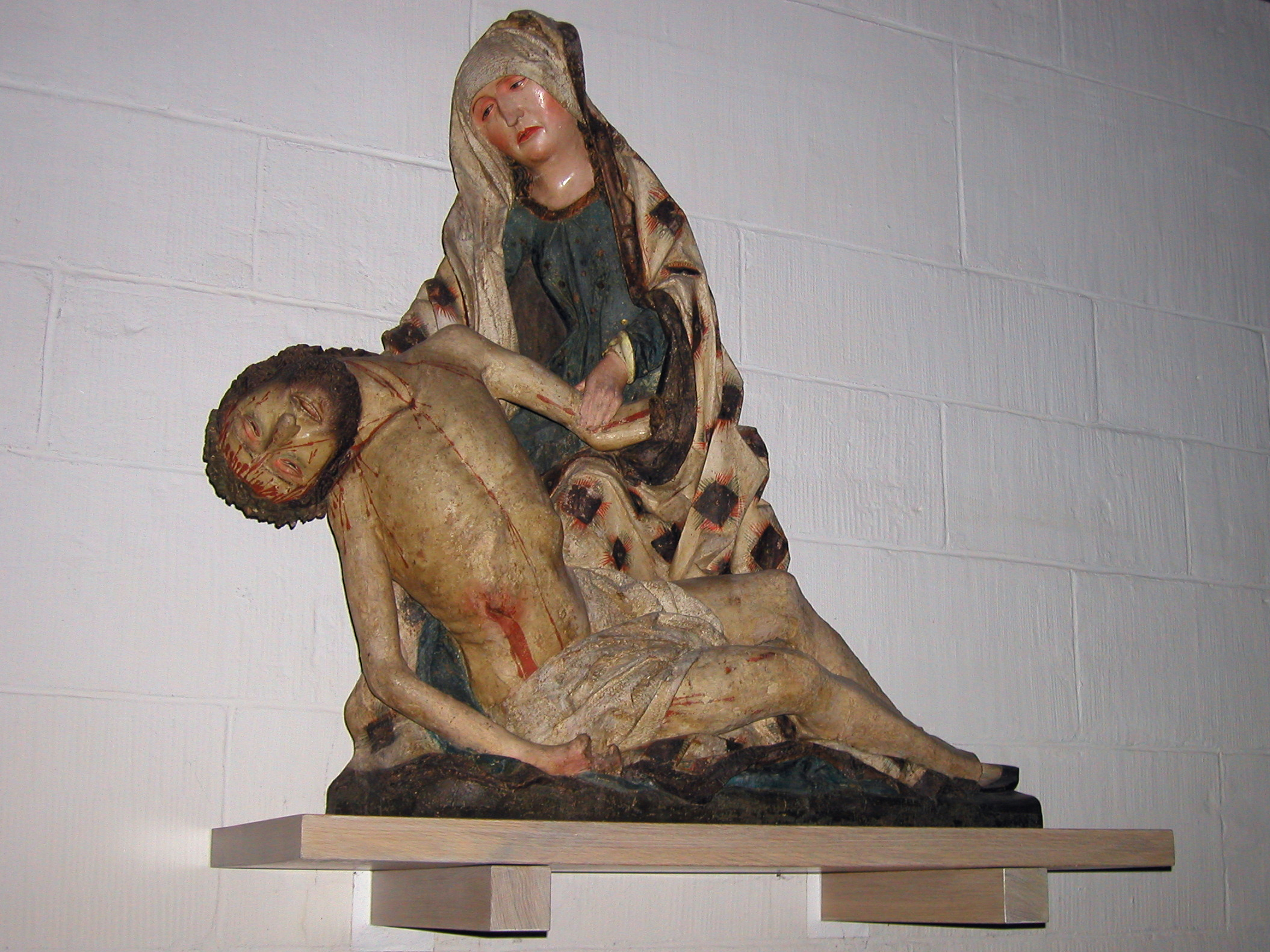 Pieta in the church of Thalbürgel